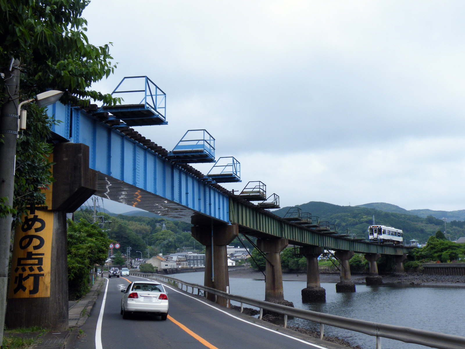 Matsuura Railway Emukae River Bridge No.1